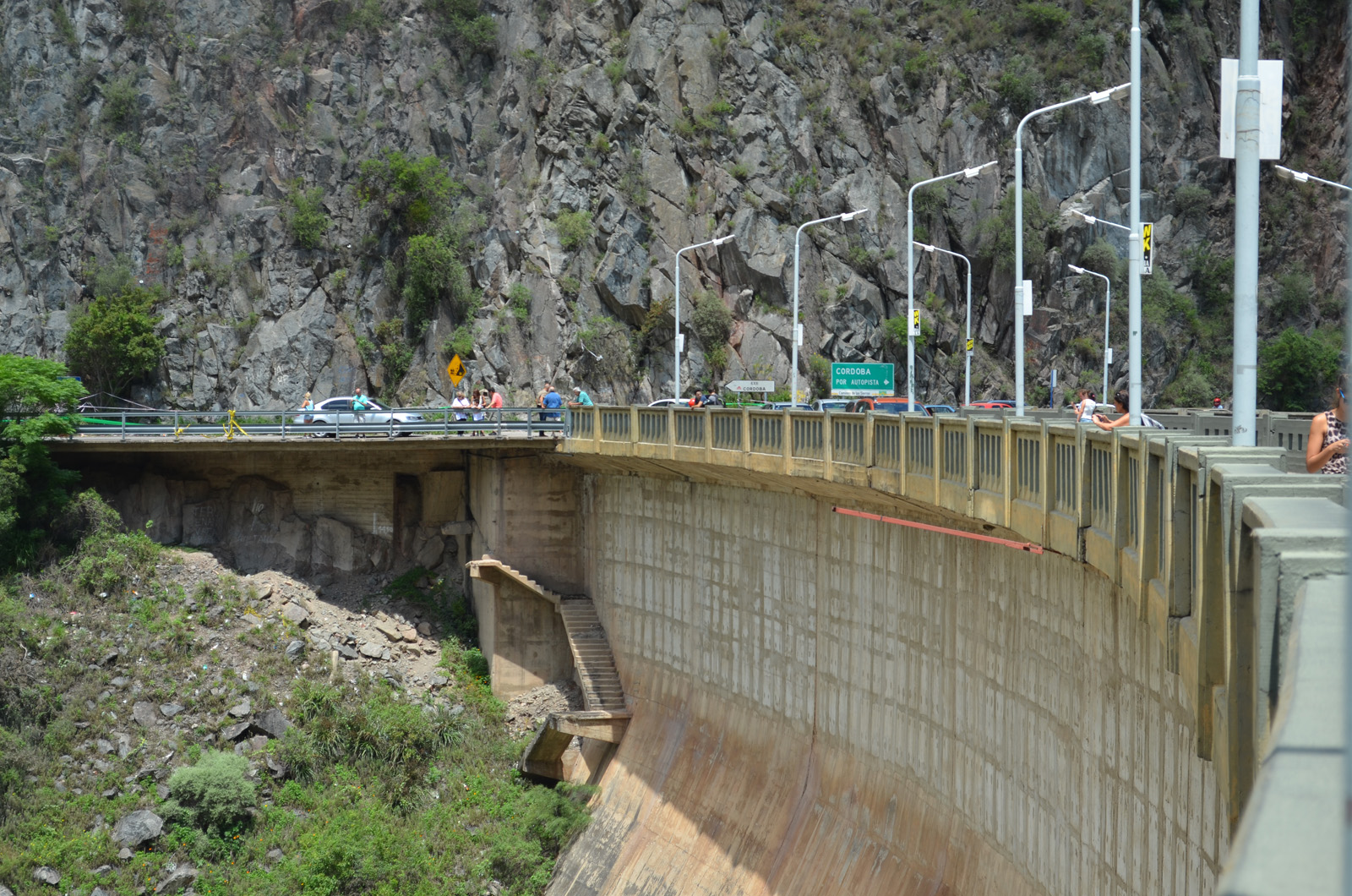 Road E-55, Province of Córdoba, Argentina. Near San Roque Lake.